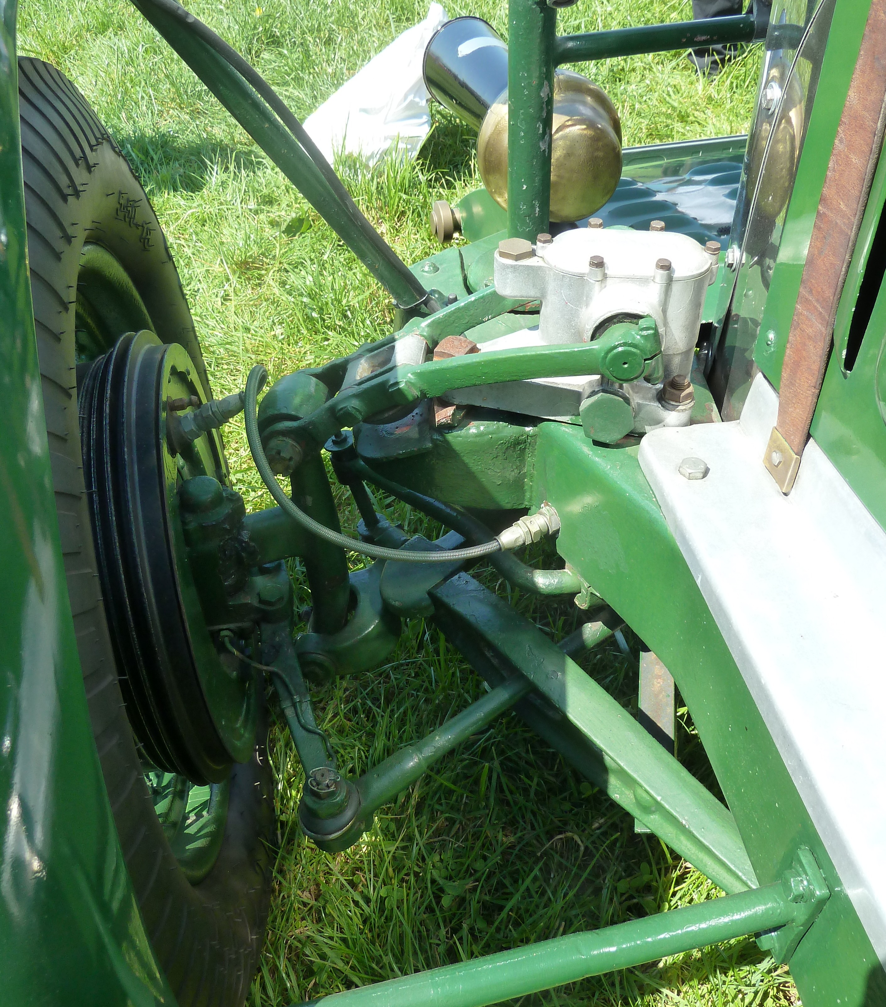 Lever arm shock absorber as the upper wishbone of independent front suspension. Bentley-engined special. Cophill Farm vintage rally, near Chepstow, 2012.